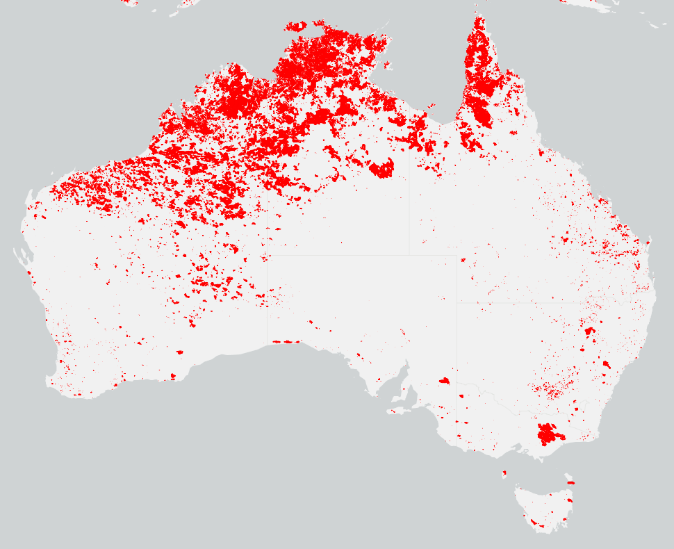 Burned areas shown in red detected by NASA's MODIS imaging sensors onboard Terra & Aqua satellites from June 2006 to May 2007. We acknowledge the use of data and imagery from LANCE FIRMS operated by NASA's Earth Science Data and Information System (ESDIS) with funding provided by NASA Headquarters.